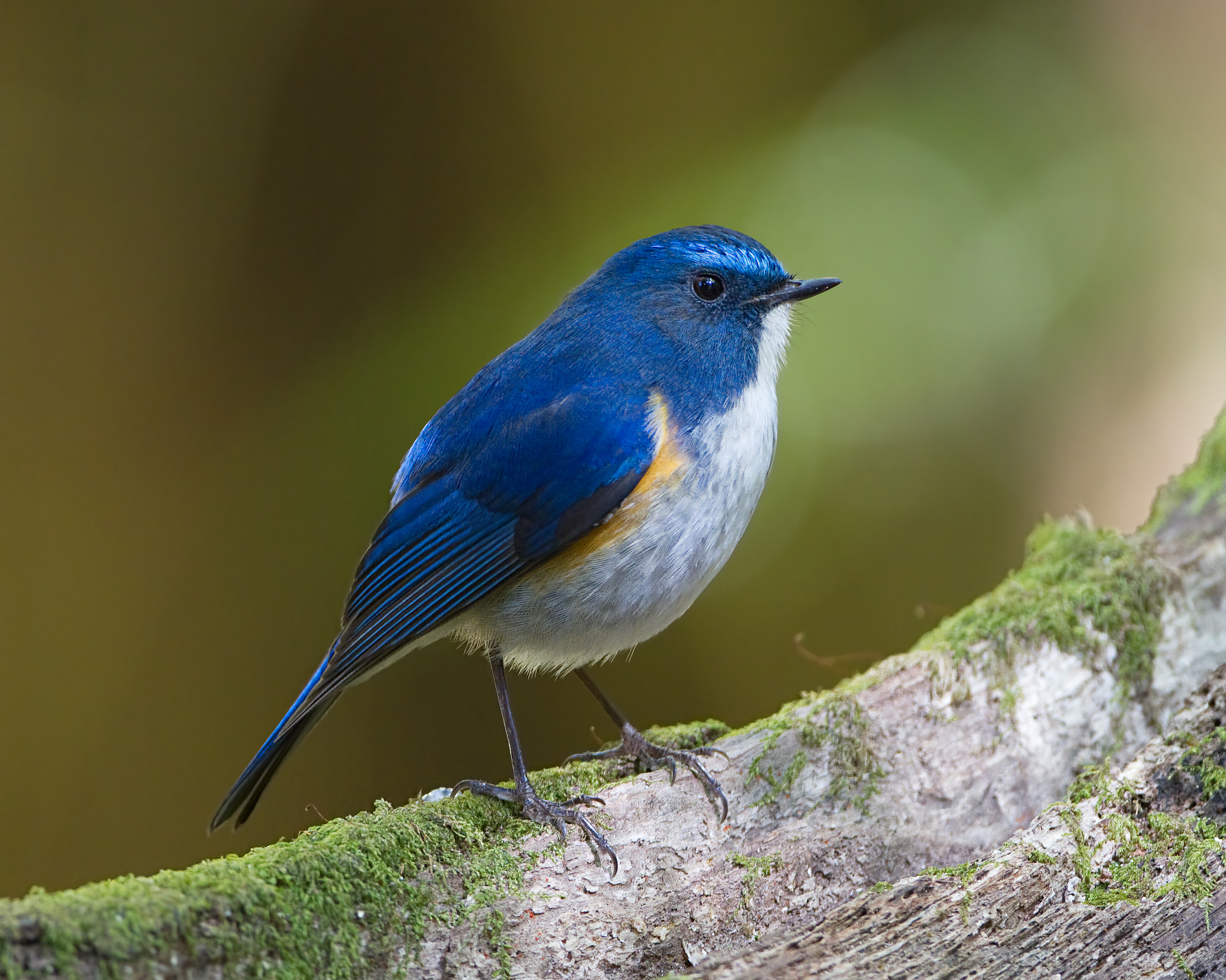 Himalayan Bluetail (Tarsiger rufilatus), Doi Inthanon National Park, Ban Luang, Chiang Mai, Thailand